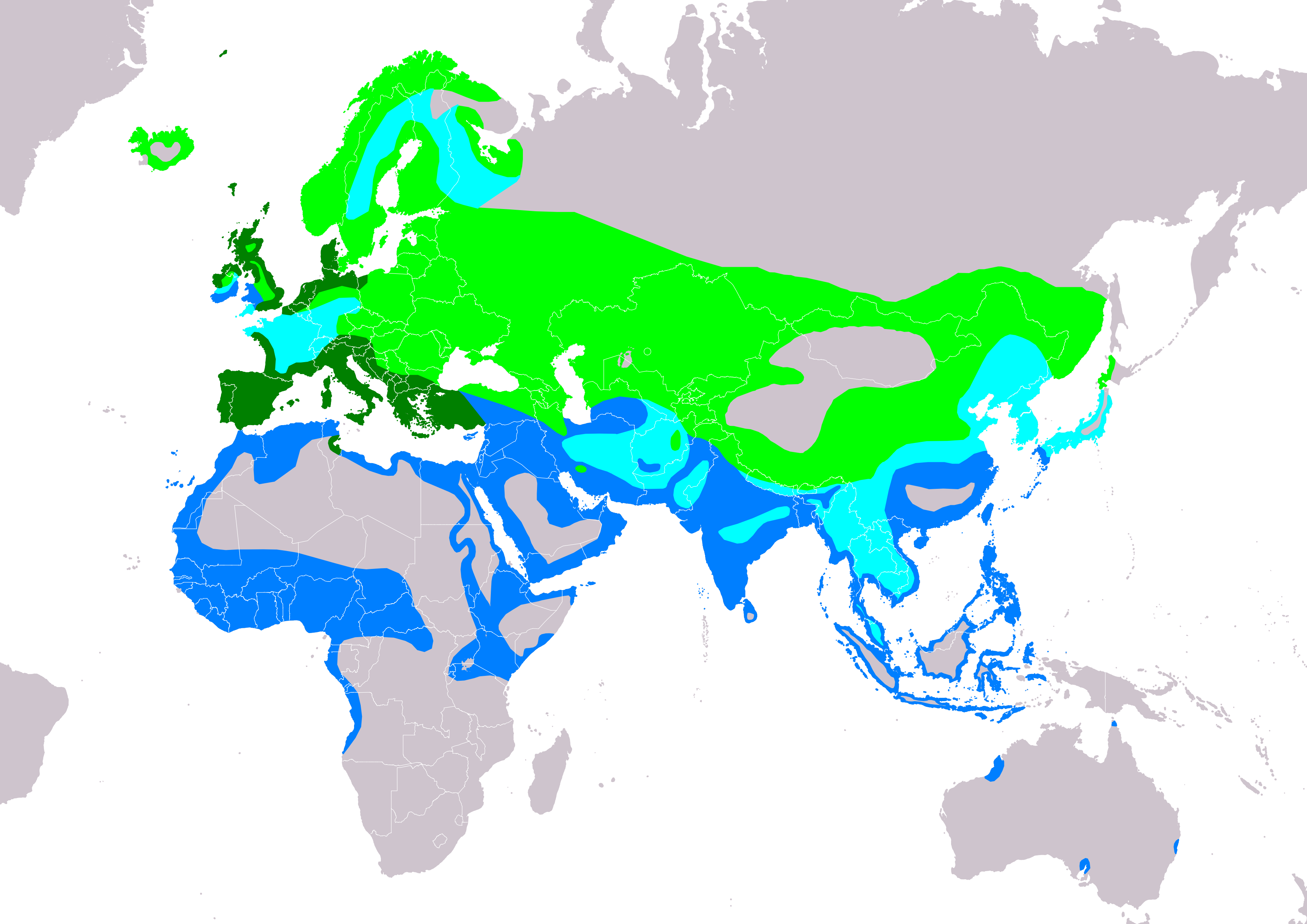 Distribution map of common redshan (Tringa totanus) according to IUCN version 2019-2 ; key: Legend: Extant, breeding (#00FF00), Extant, resident (#008000), Extant, passage (#00FFFF), Extant, non-breeding (#007FFF)